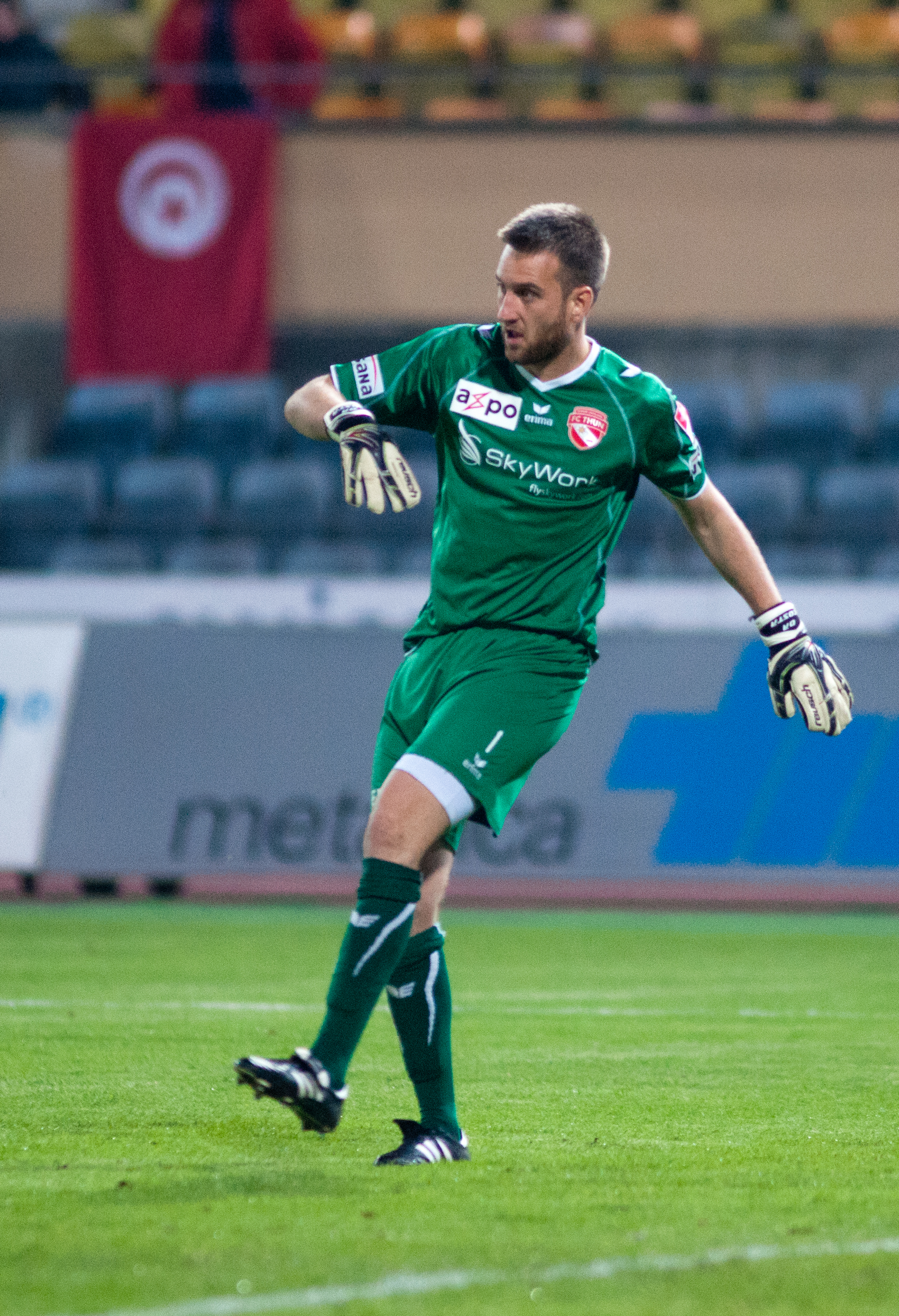 The making of this document was supported by Wikimedia CH. (Submit your project!) For all the files concerned, please see the category Supported by Wikimedia CH. Lausanne Sport vs. FC Thun - 22.10.2011